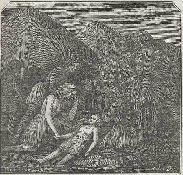 from Royal B. Stratton LIFE AMONG THE INDIANS : BEING AN INTERESTING NARRATIVE OF THE CAPTIVITY OF THE OATMAN GIRLS, AMONG THE APACHE AND MOHAVE INDIANS . . . San Francisco: Whitton, Towne & Co.'s Excelsior Steam Power Presses, 1857.